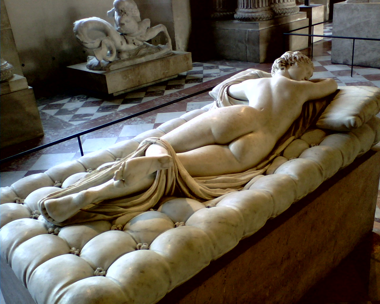 Hermaphroditus asleep. Greek marble, Roman copy from the Imperial Era (2nd century CE) after a Greek original, now at the Louvre, Paris (purchased in 1807). The mattress (Carrara marble) was sculpted in 1619 by Gianlorenzo Bernini, commissioned by Cardinal Scipion Borghese.